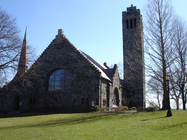 A picture of Goddard Chapel, Tufts University